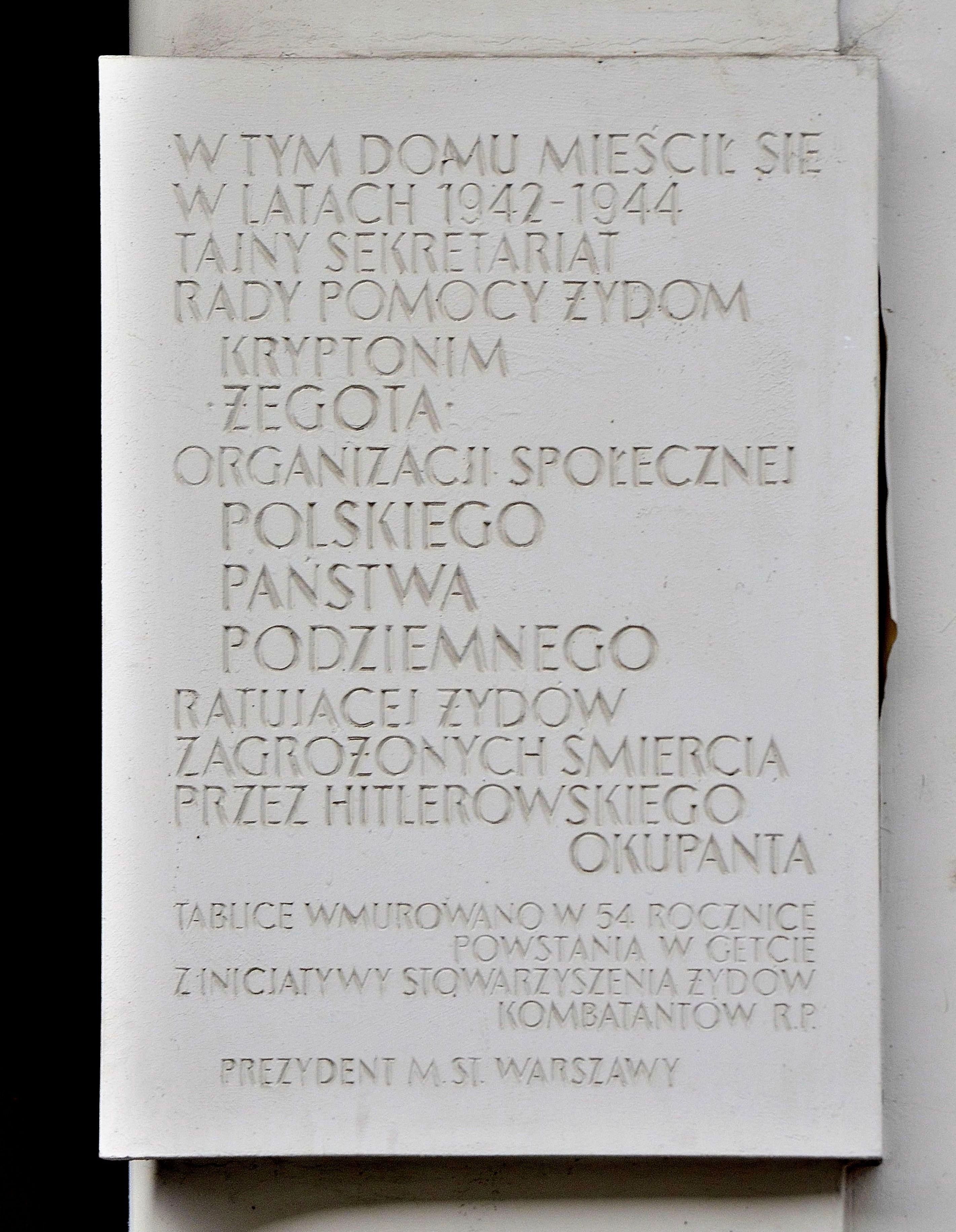 Plaque commemorating Żegota Secretariat at 24 Żurawia Street in Warsaw